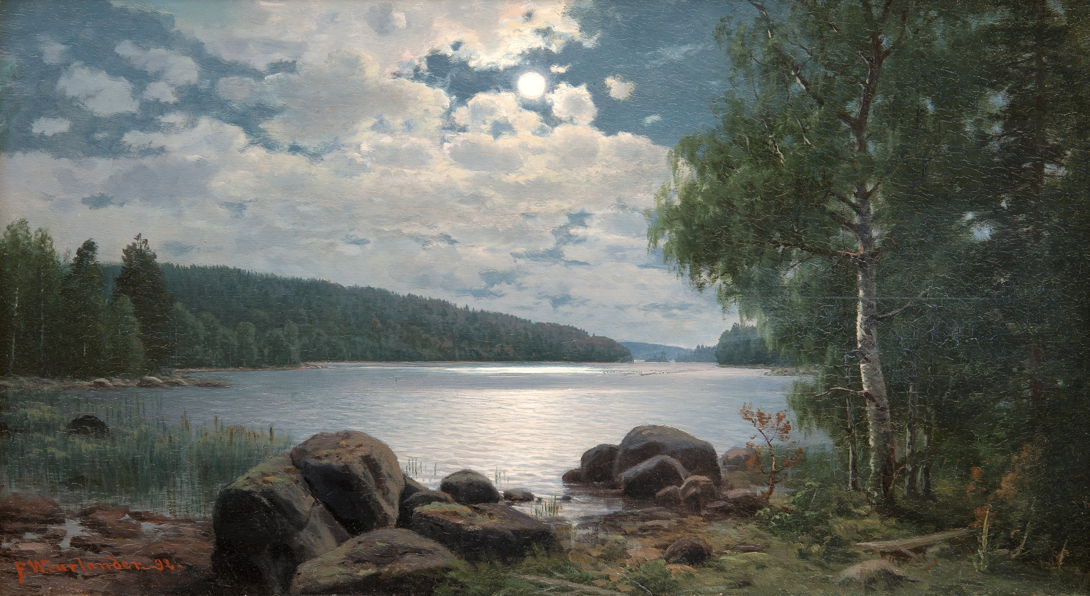 Fridolf Weurlander: Moonlight, 1892. Oil on board 29,5x51 cm.